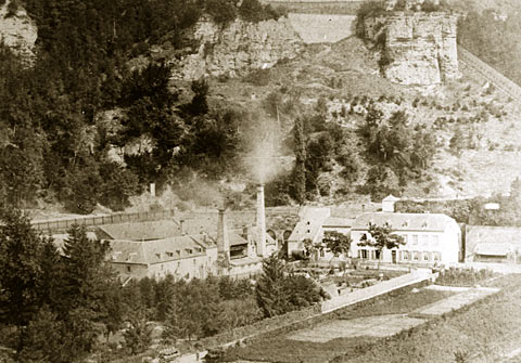 Photograph of the Funck-Duchamp brewery in Clausen, Luxembourg City.